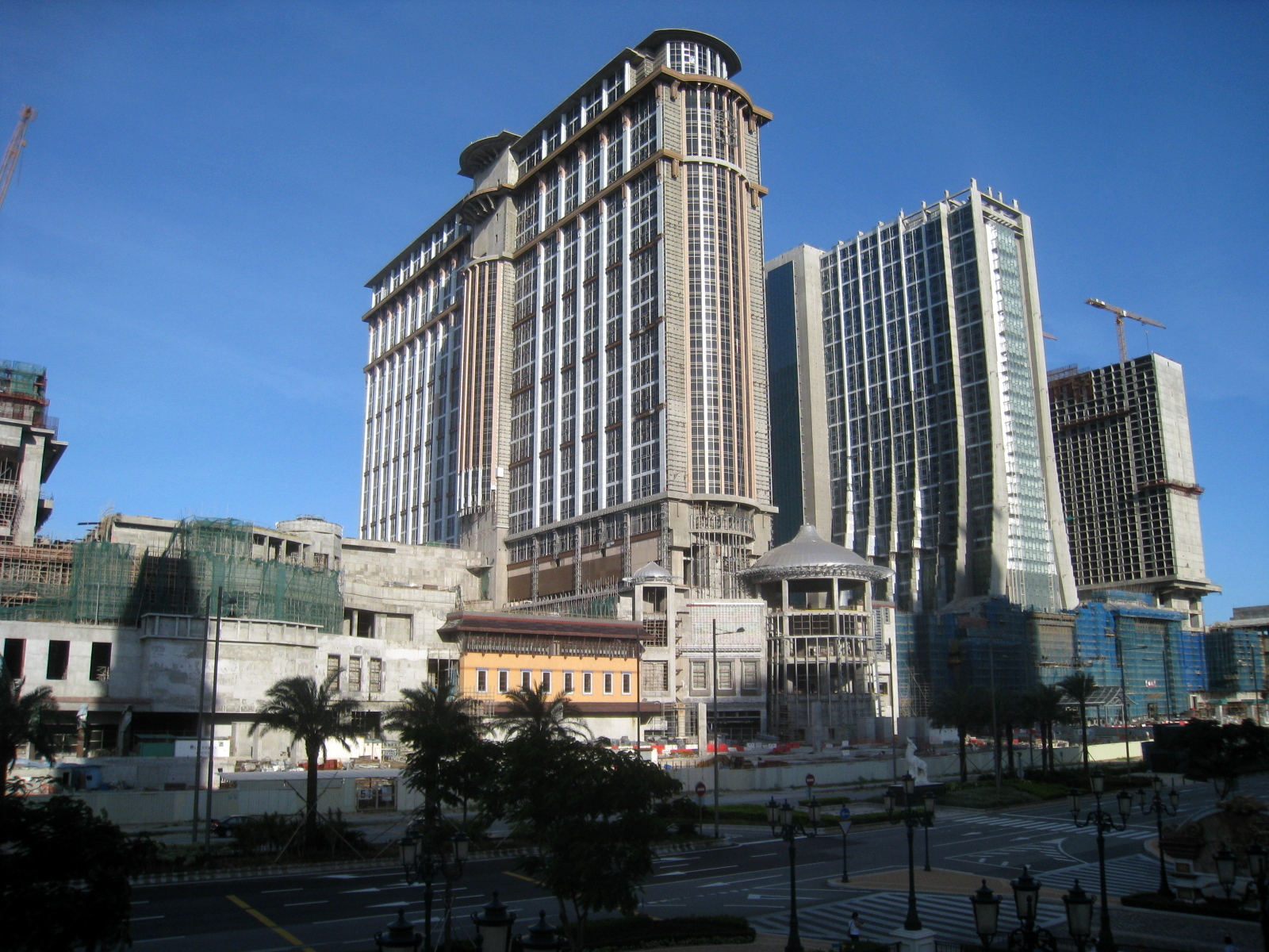 The Shangri-La Hotels and Resorts Macau 已停工的 香格里拉酒店 (澳門)